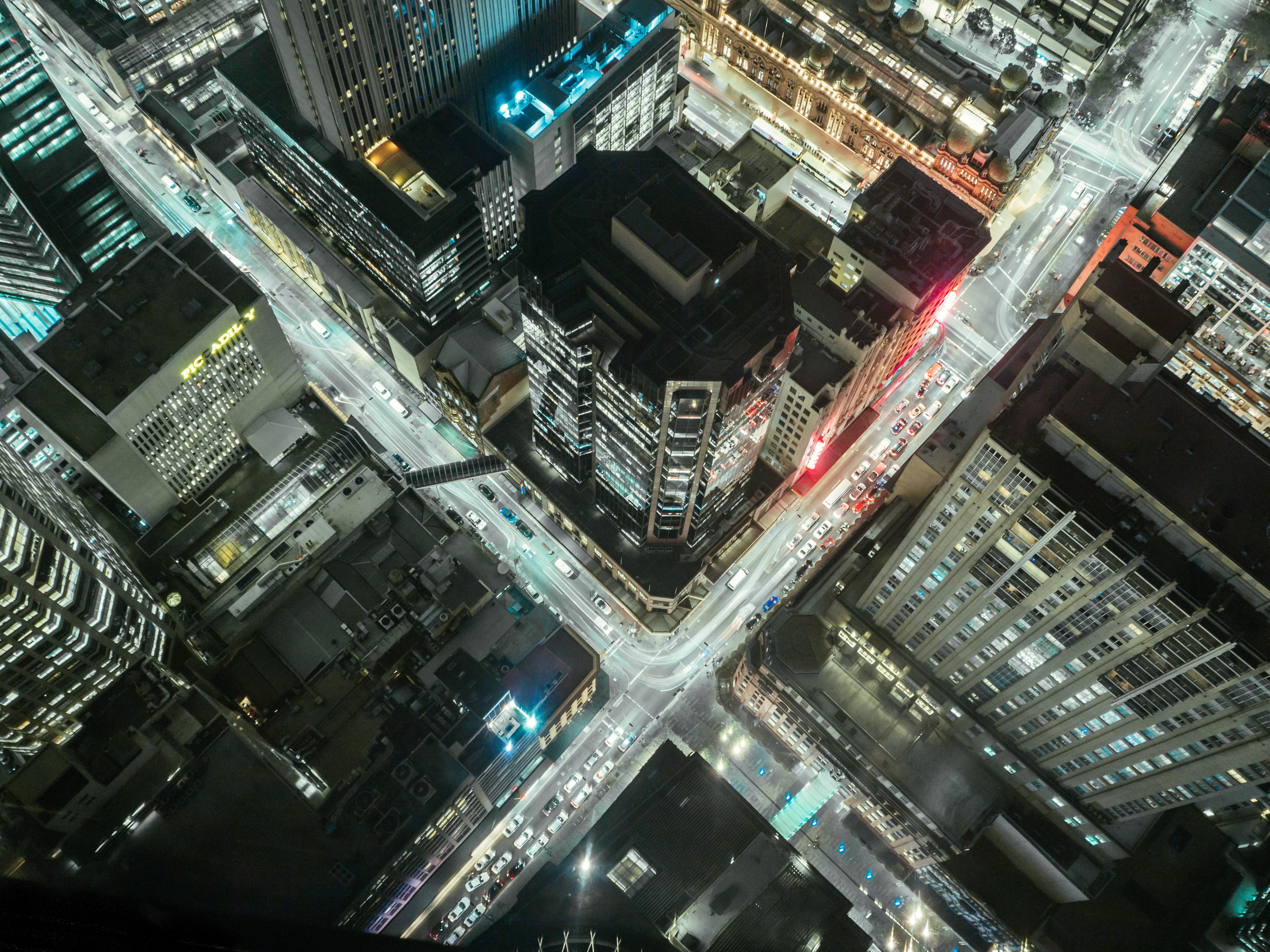 Sydney Tower Eye, Sydney, Australia